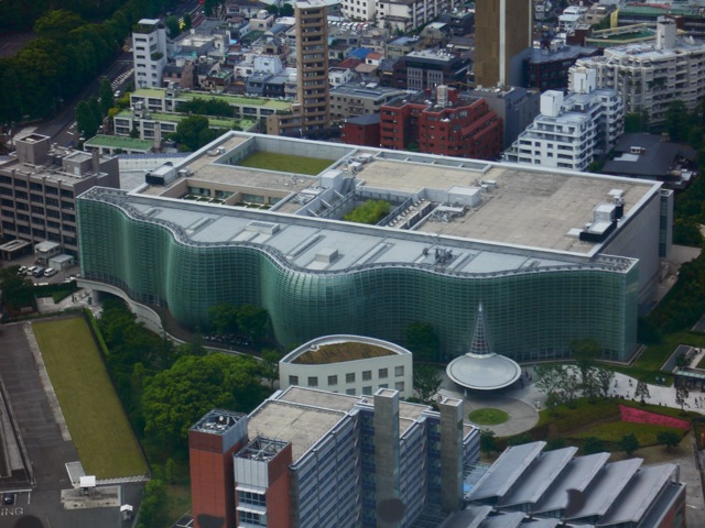 The National Art Center, Tokyo in Roppongi, Minato, Tokyo.